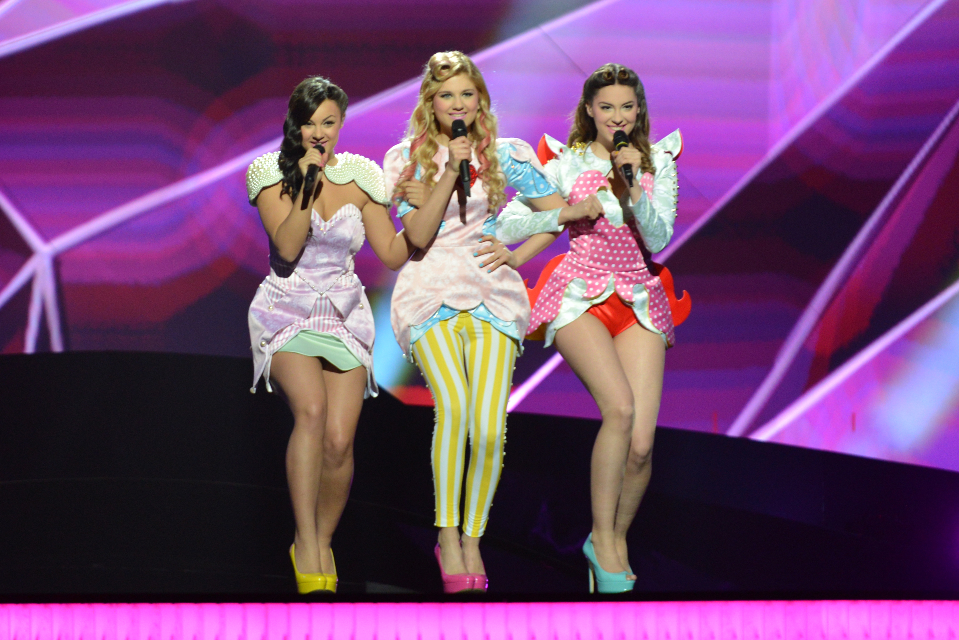 Moje 3 representing Serbia with the song "Ljubav je svuda" (Љубав је свуда) during the first dress rehearsal of the first semi final of the Eurovision Song Contest 2013 in Malmö. (Help translate this text)